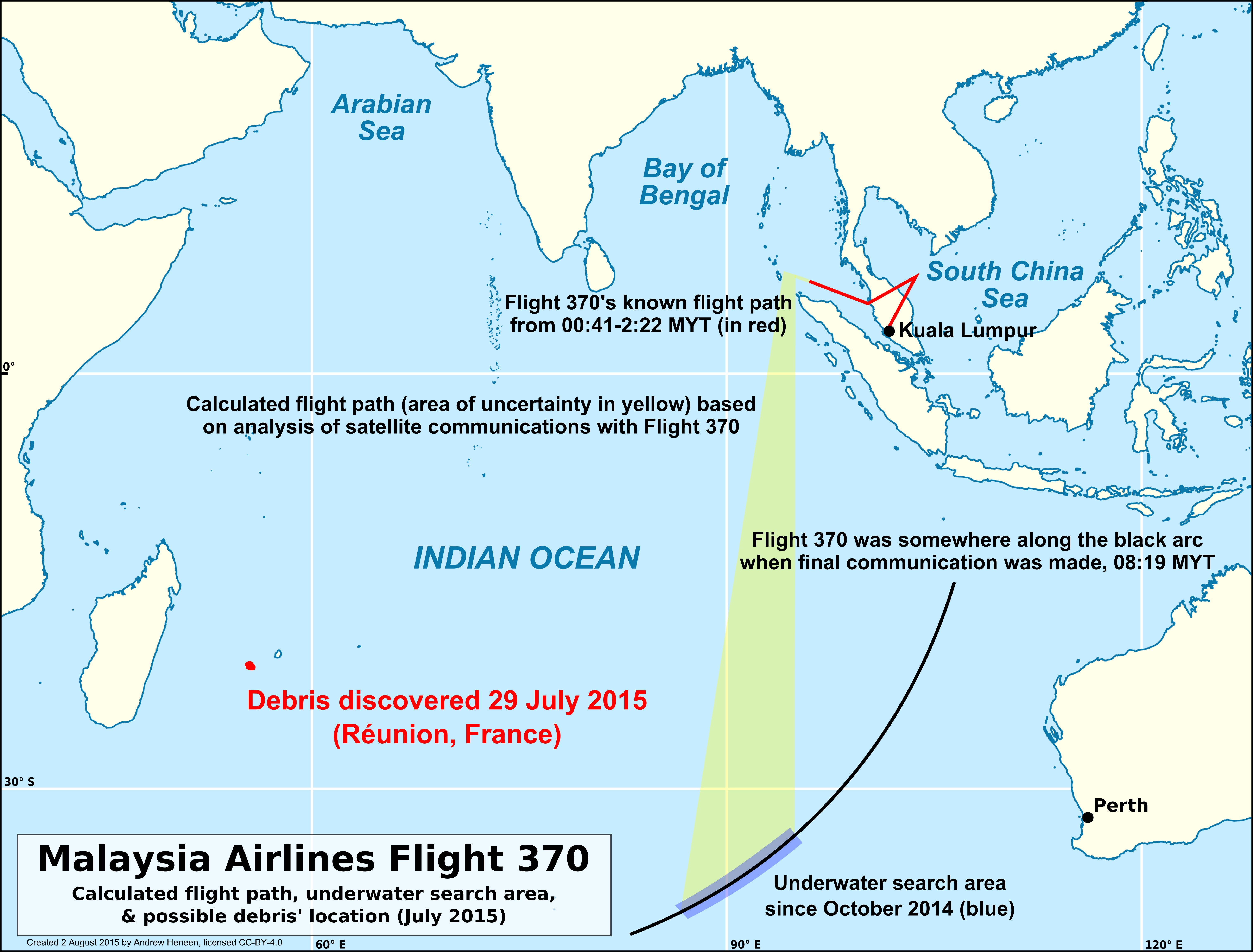 This map displays the location of Reunion Island, because of the debris part found there in 2015-07, in relation to the known flight path of Malaysia Airlines Flight 370 (shown in red; based on civilian & military radar), calculated flight path (shown in yellow; based on analysis of communications between Flight 370 and the Inmarsat satellite communications network), and the underwater search area at the time the debris was found (shown in dark blue; 46% searched at the time debris was found). The 08:19 MYT (00:19 UTC) BTO arc is the arc along which Flight 370 was located when its final communication was received. (Note: At the time of upload, officials have not confirmed the debris to be from Flight 370. However, all evidence points to the debris being the right wing flaperon of a Boeing 777 and Flight 370 is almost certainly the origin.)